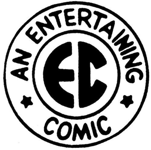 Logo of EC Comics